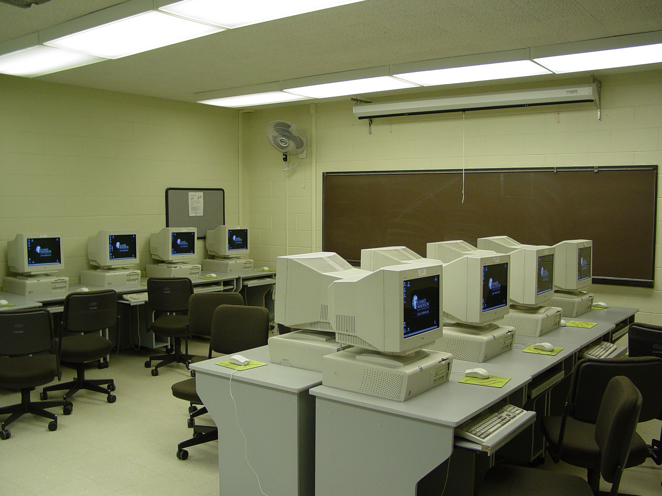 Maury Hall computer lab